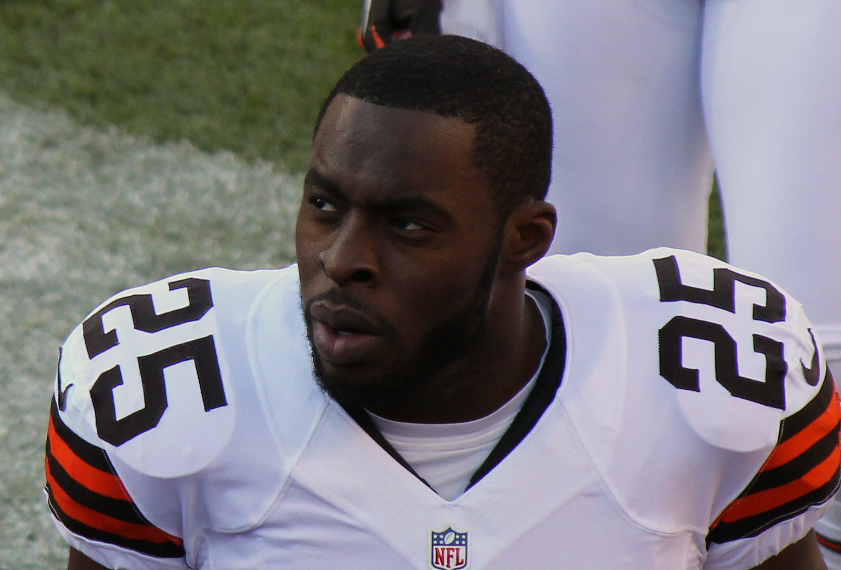 Chris Ogbonnaya, a player on the National Football League.